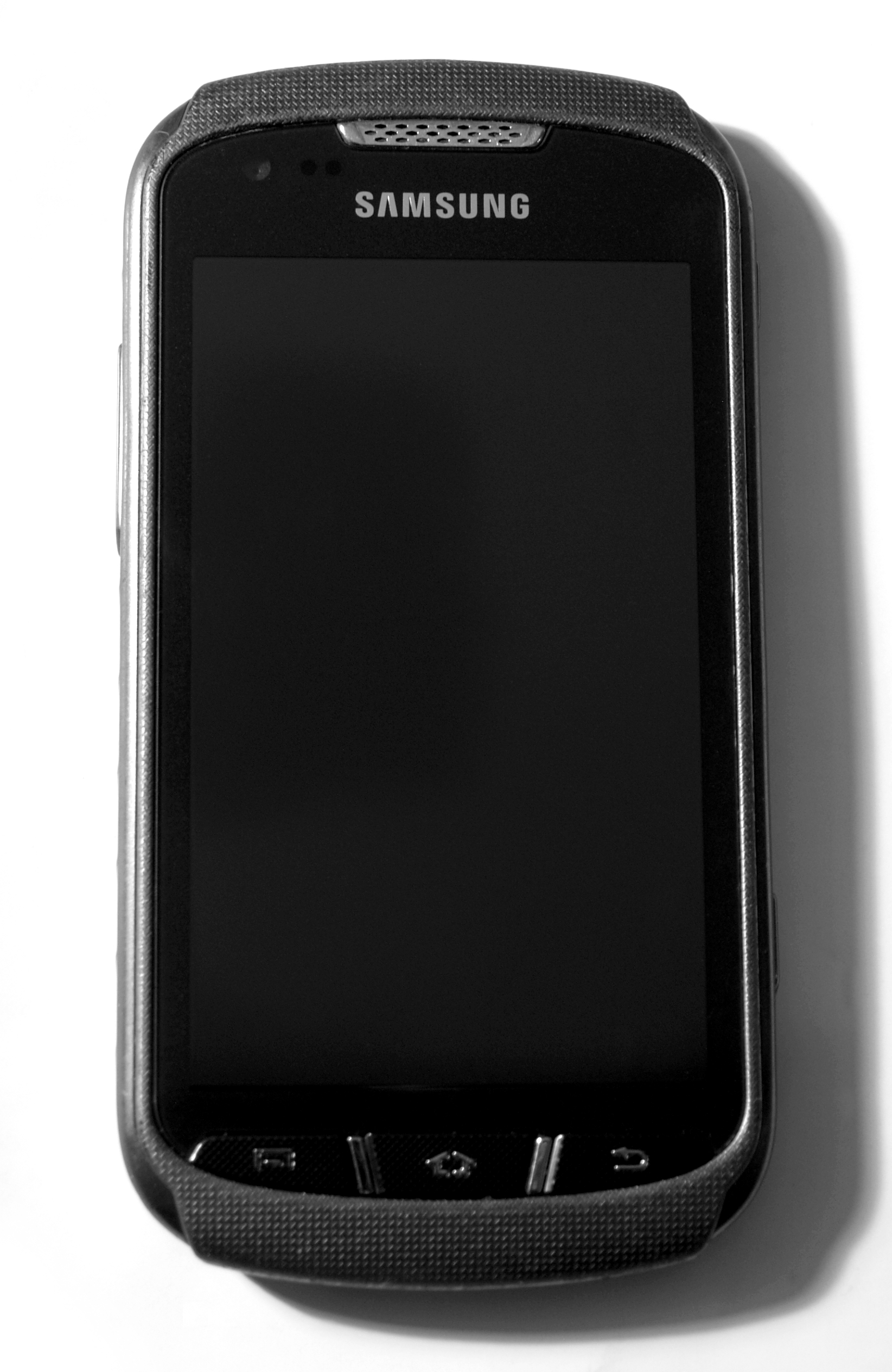 Samsung Galaxy Xcover 2 (GT-S7710) mobile phone.